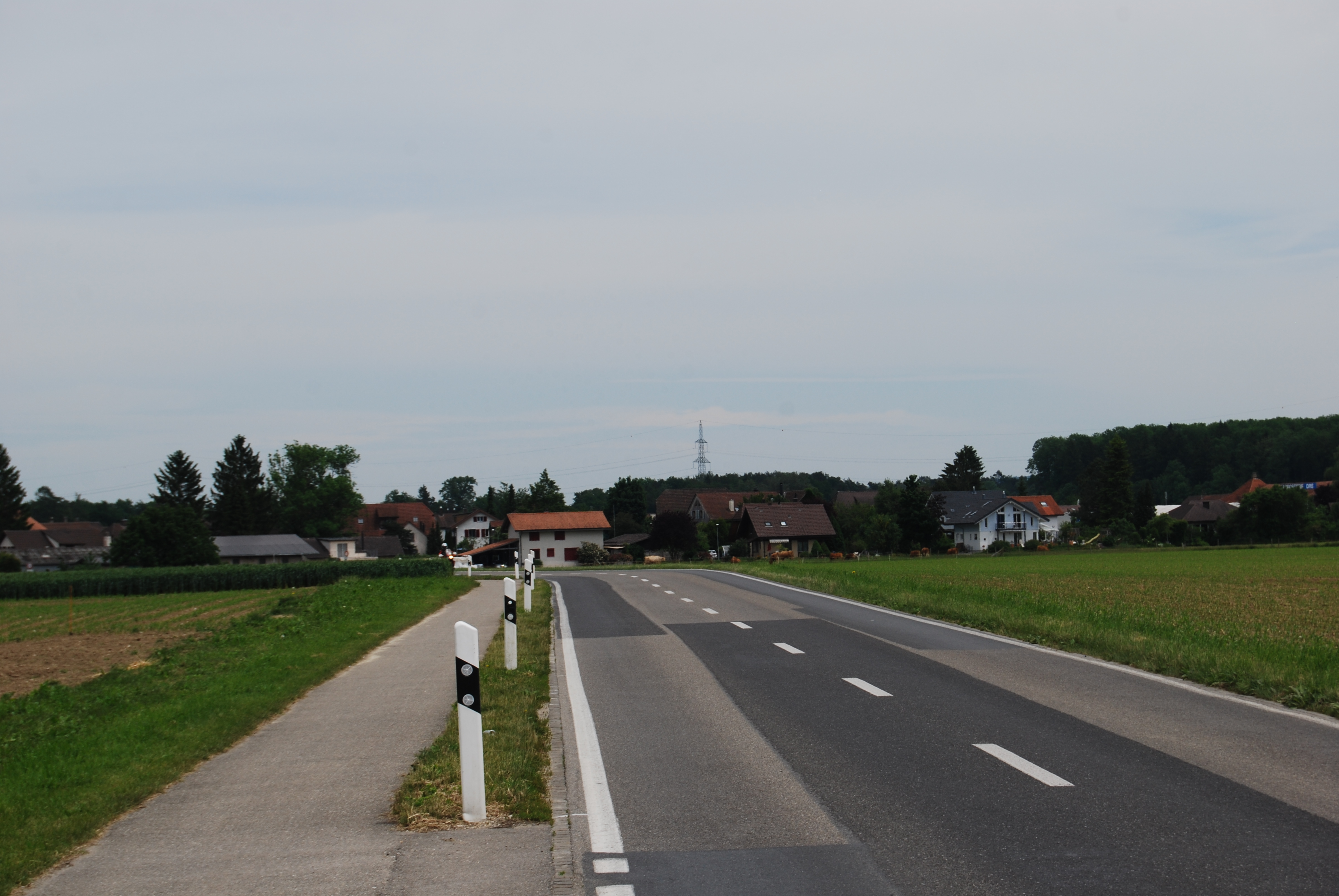 Scheuren, canton of Bern, SwitzerlandEsperanto: Scheuren, Kantono Berno, Svislando